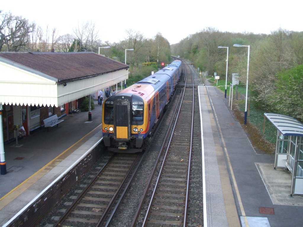 Bentley Railway Station.